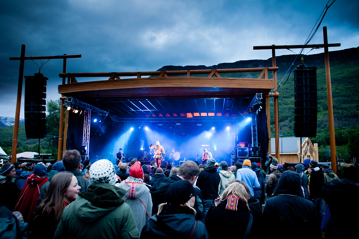 Sami artist Wimme on Riddu Riddu. Photo: Marius Fiskum